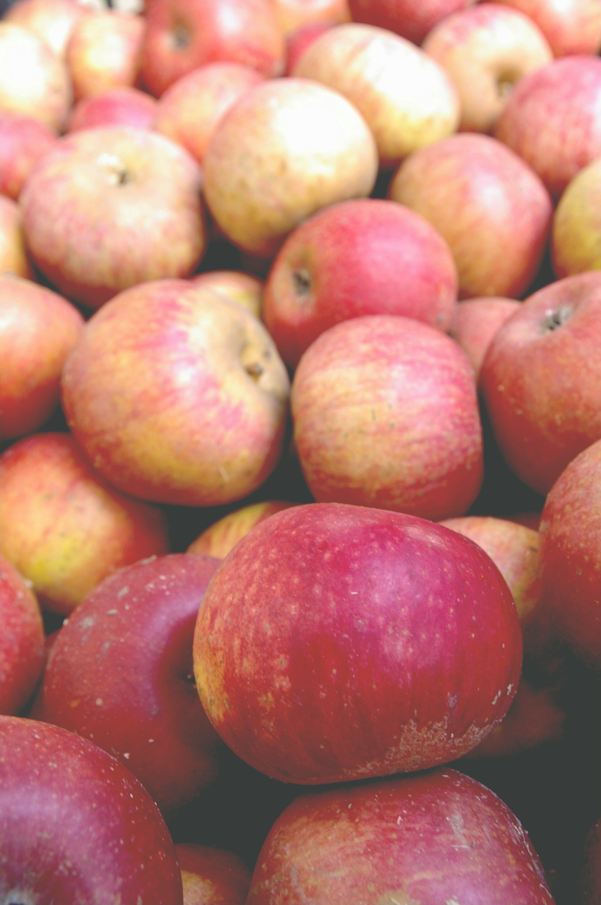 Melannurca (PGI), typical from Campania – Italy.